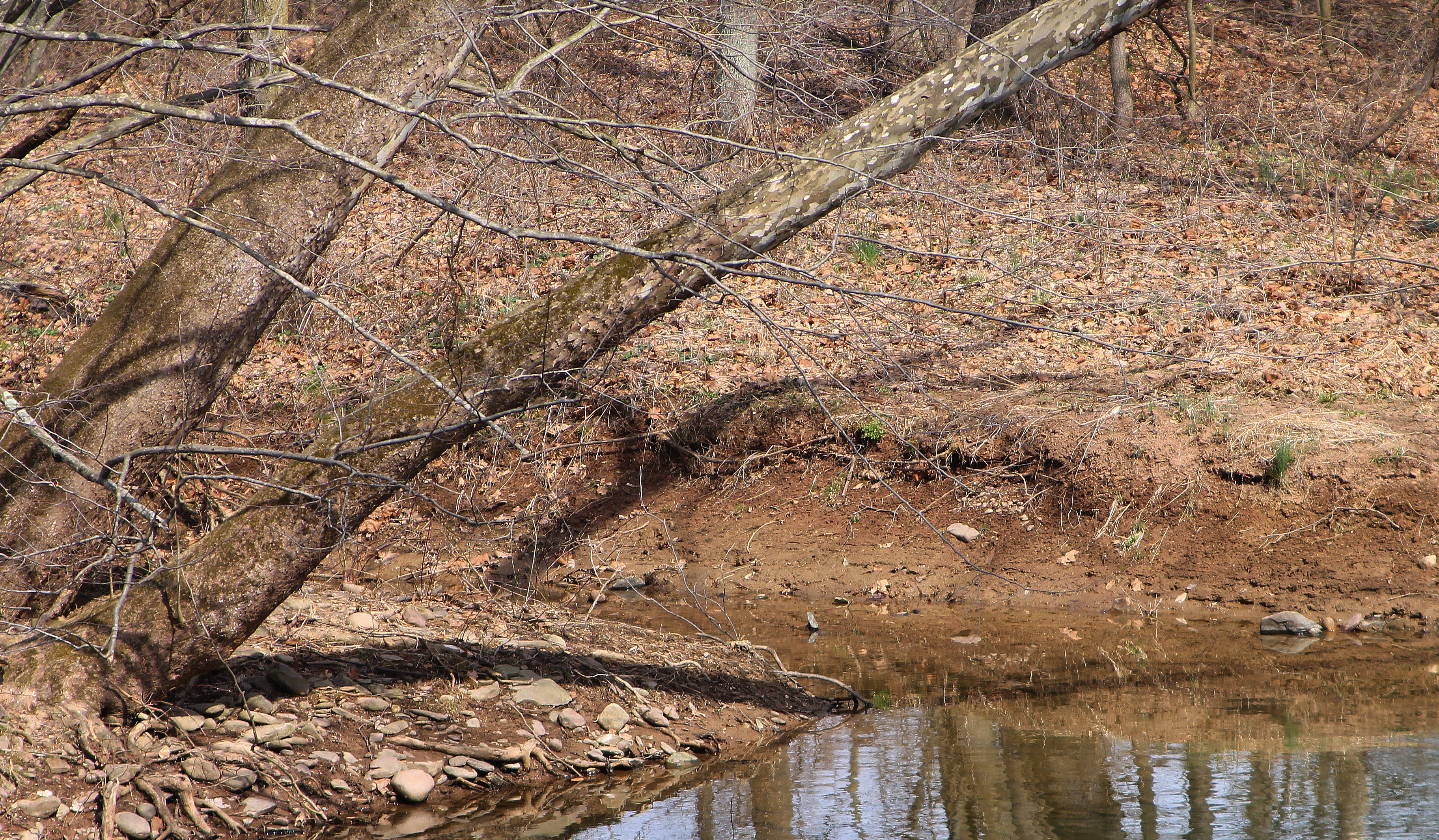 Mouth of Jakes Run, a tributary of Little Muncy Creek in Lycoming County, Pennsylvania. Little Muncy Creek itself is in the foreground.